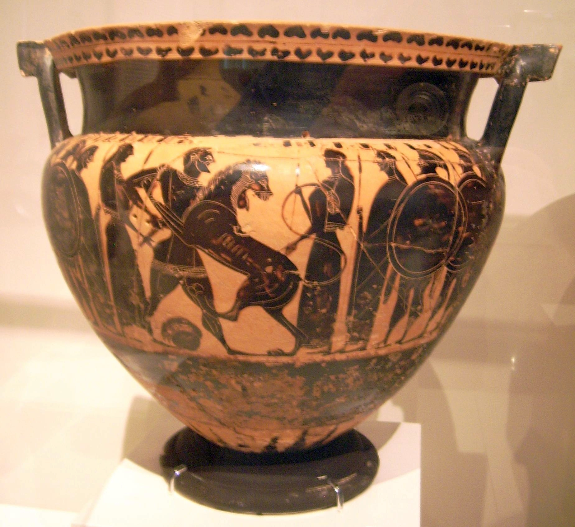 Attic black-figure column crater by the Painter of Louvre F 6; Side A: Herakles and the Nemean lion, Side B: two men wearing himatia between lions; from Thespiai; about 550/540 BC.; National Archeological Museum Athens (440)